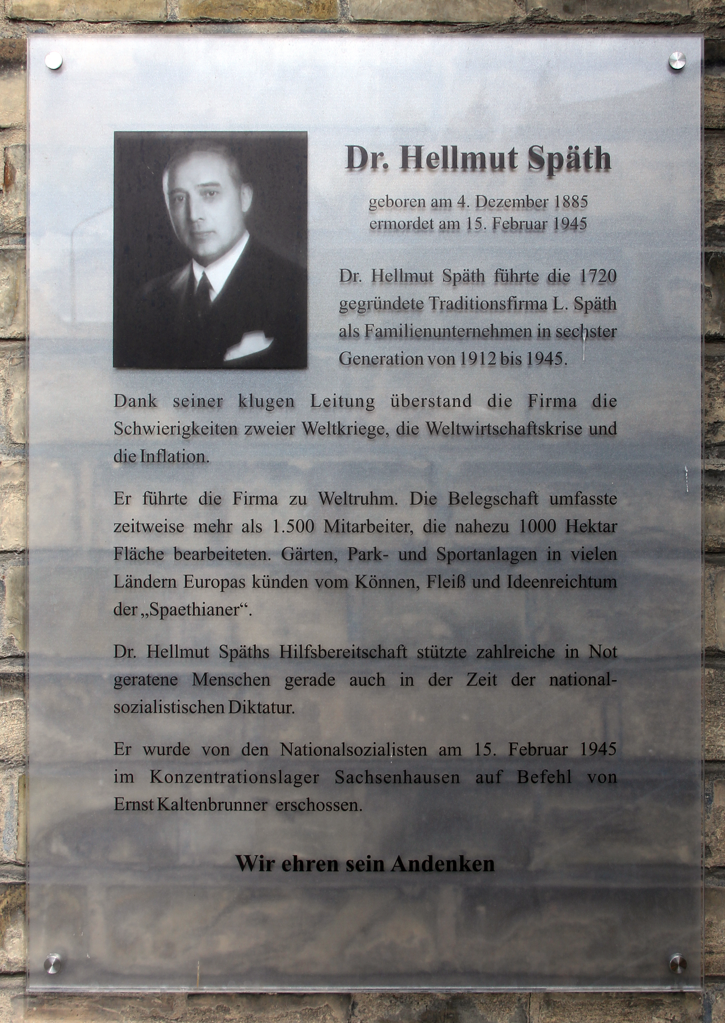 Memorial plaque, Hellmut Späth, Späthstraße 80-81, Berlin-Baumschulenweg, Germany